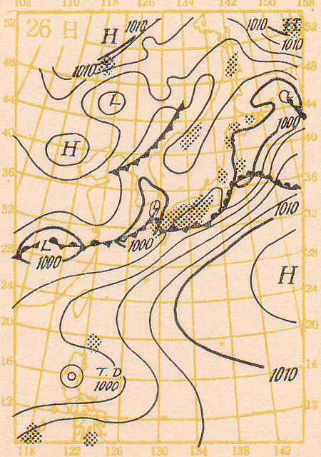 This is a surface weather analysis(weather chart)of Japan on June 26, 1953. It's gives an explanation of Western Japan flood in 1953(Showa 28)